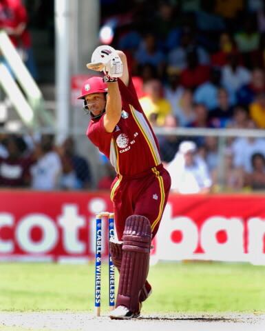 West Indies Tour in the Caribbean